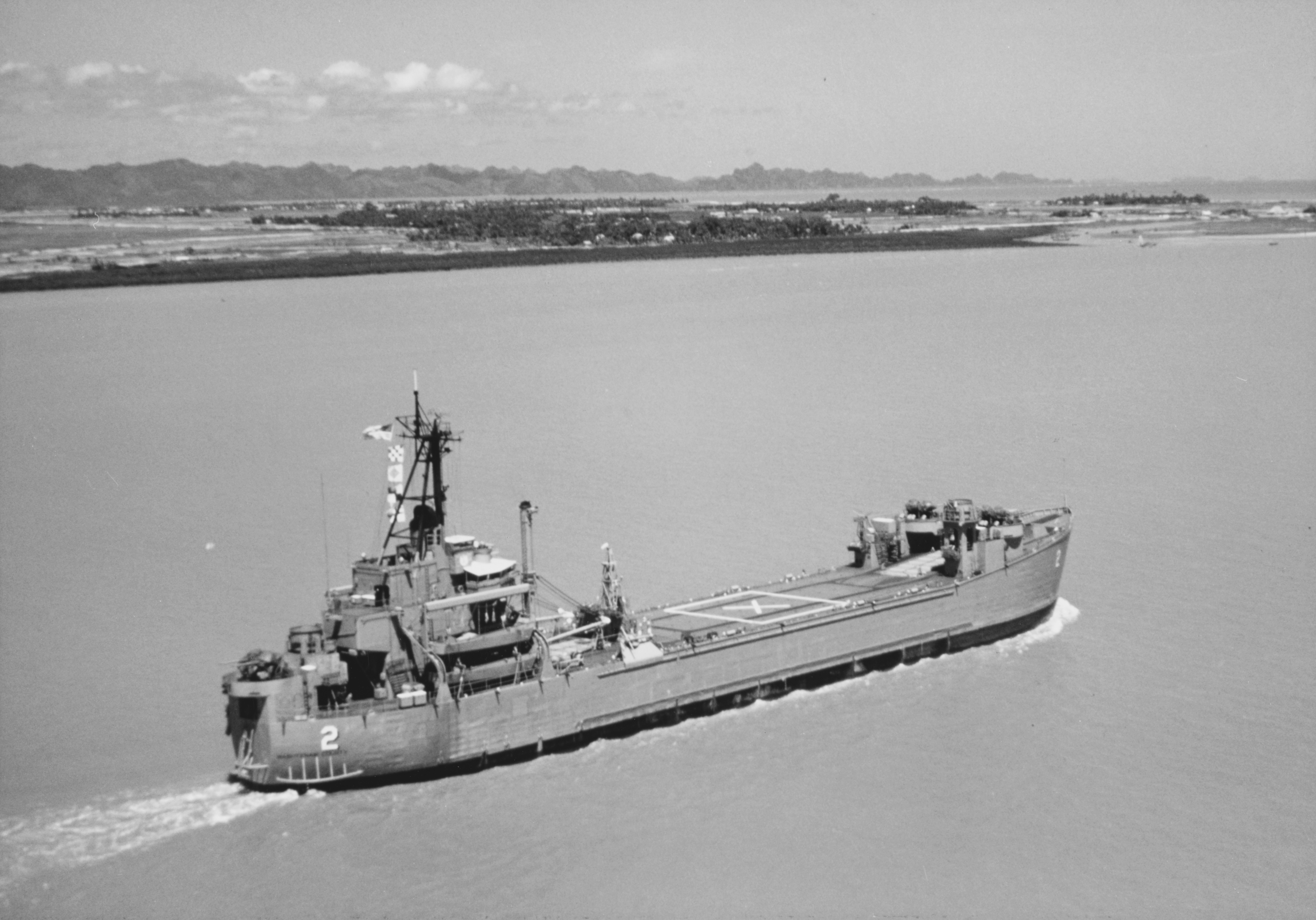 The U.S. Navy special device minesweeper USS Washtenaw County (MSS-2, formerly LST-1166) conducts a run in the main channel of Haiphong Harbor, North Vietnam, to demonstrate its safety for shipping after "Operation End Sweep" mine clearance activities, 20 June 1973.